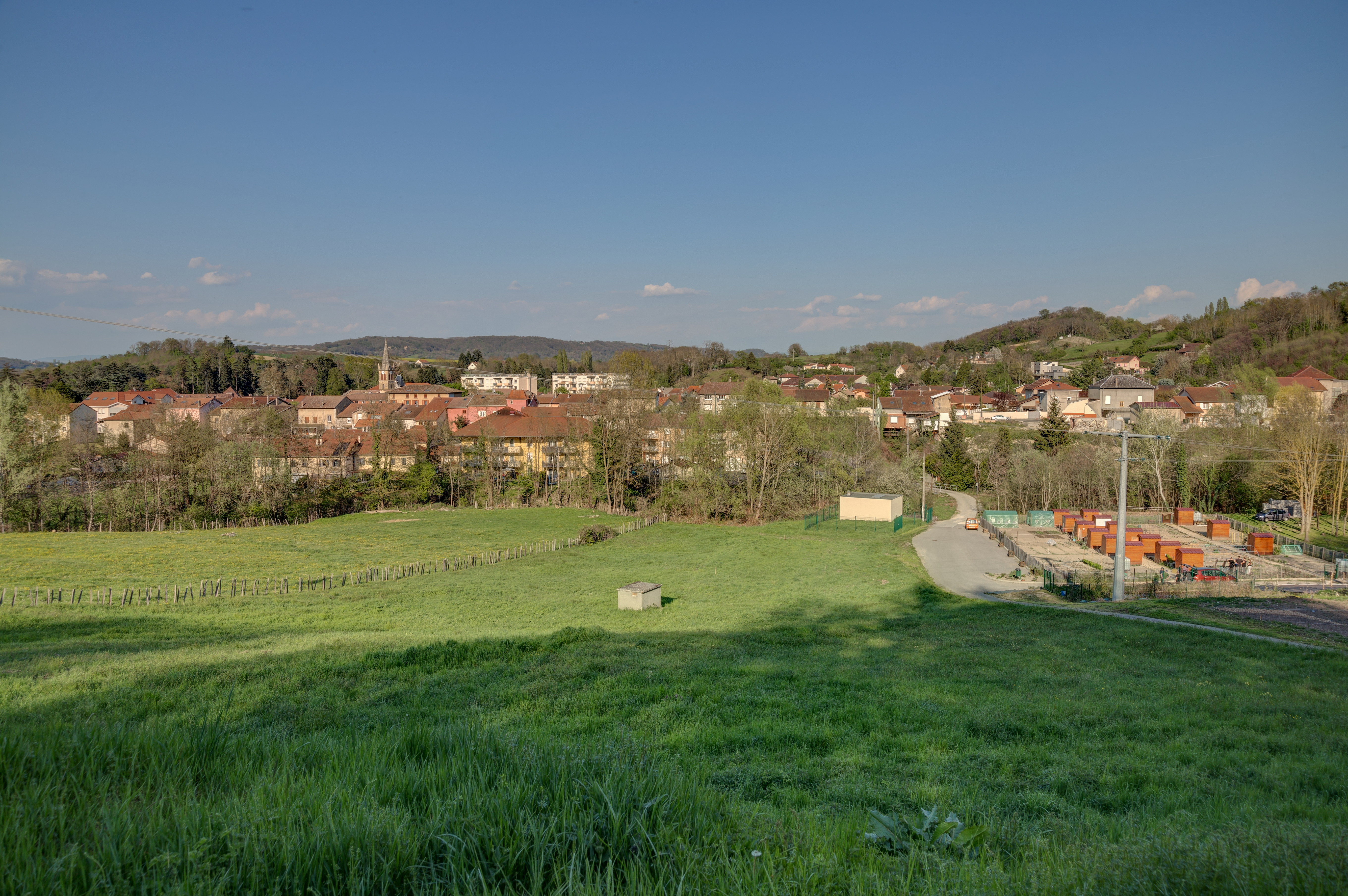 Panorama of Nivolas-Vermelle since the rise of Ravineaux, Isère. Right, the shared gardens.